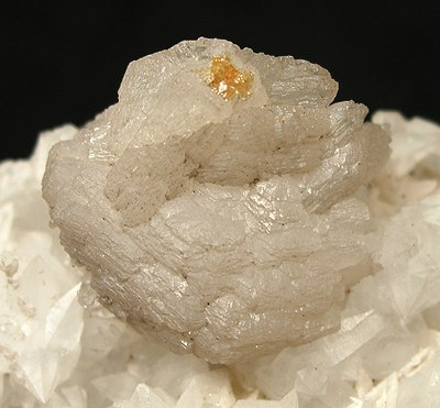 Alstonite, Witherite Locality: Brownley Hill Mine (Bloomsberry Horse Level), Nenthead, Alston Moor District, North Pennines, North and Western Region (Cumberland), Cumbria, England, UK (Locality at ) Size: small cabinet, 9.7 x 4.1 x 3.7 cm Alstonite with Witherite This rich specimen dates back to , I would expect, the heyday here in the mid-1800s. It is covered by very sharp, alstonites to 6mm. Atop is a 2-cm cluster of witherite, as well. I think the orange dot atop is the remnant of a very old glue label. In any case, its surprisingly an attractive specimen, although there is some value to the even more attractively prepared, and exhaustively descriptive, old labels!